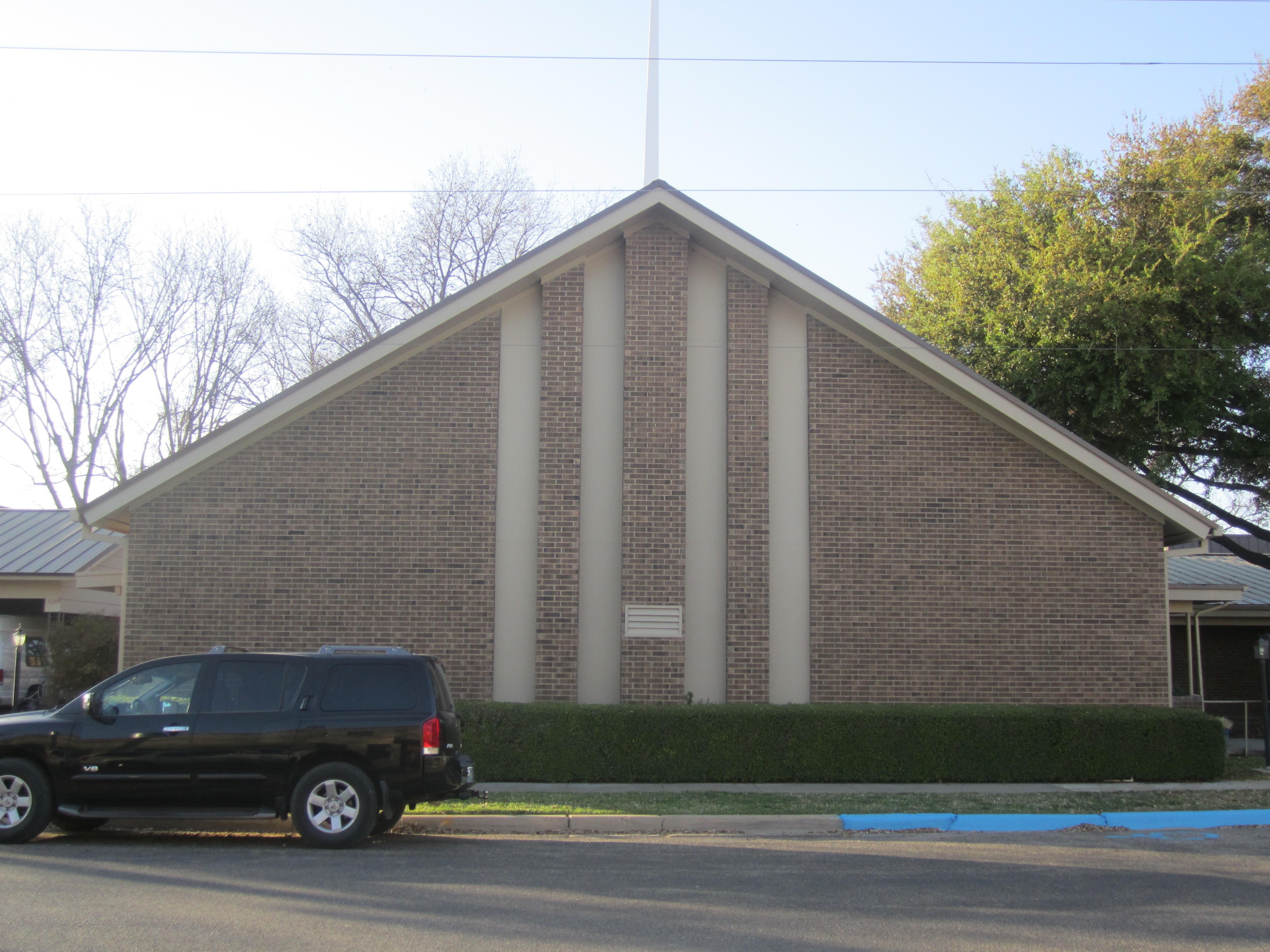 I took photo with Canon camera in Sonora, TX.